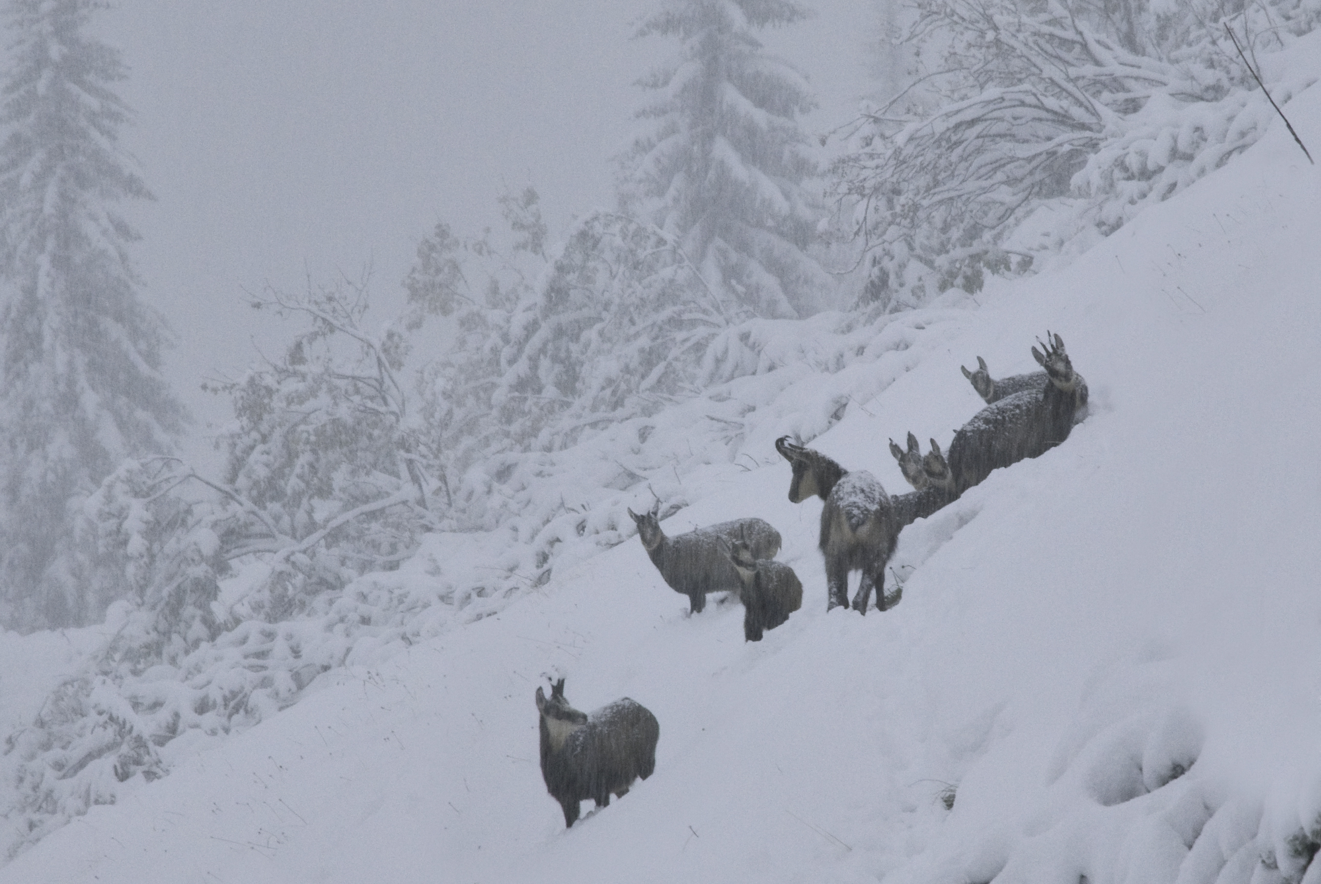 A herd of chamois (Rupicapra rupicapra rupicapra) at the first day of snow in mid autumn.